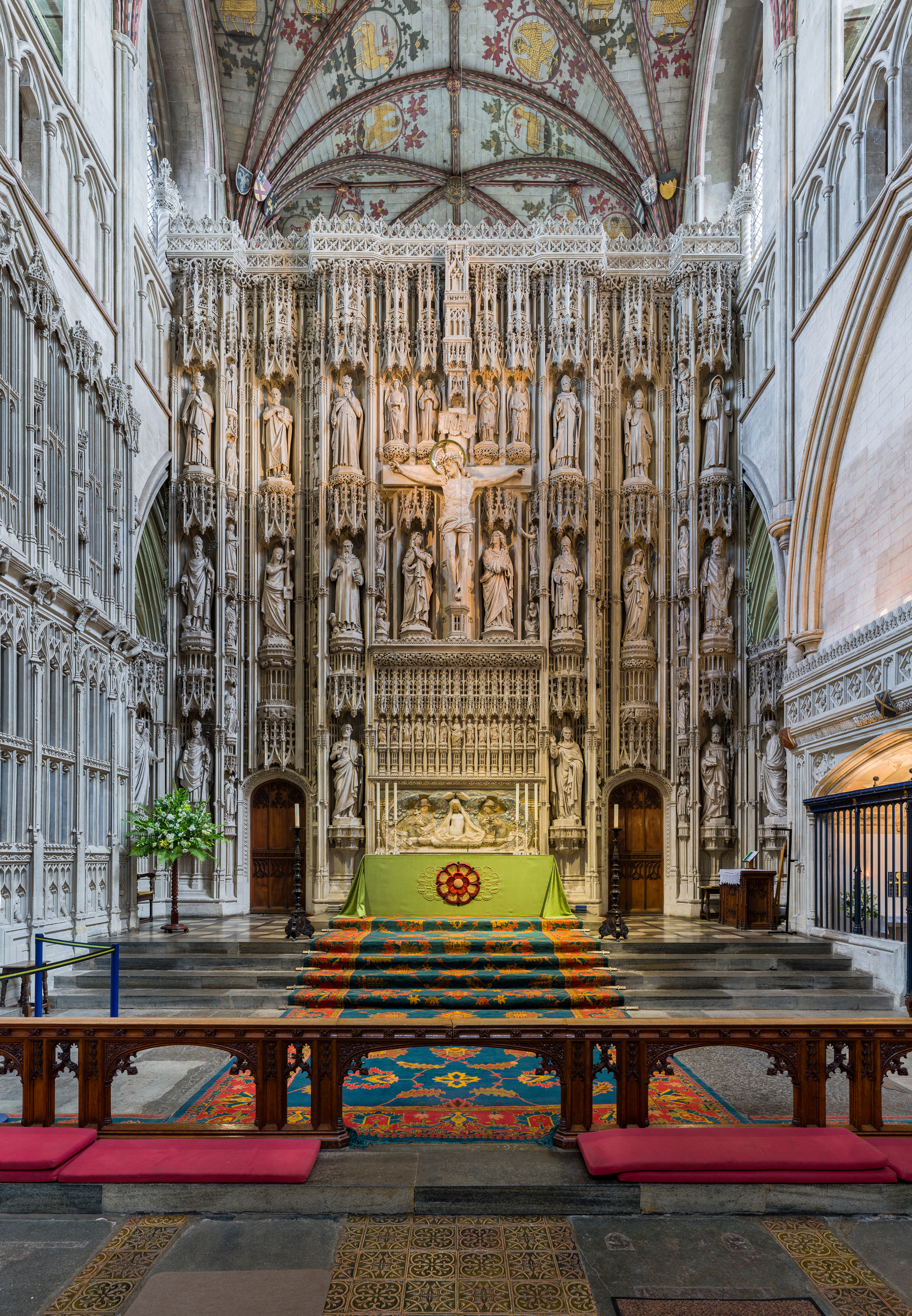 The Wallingford Screen of St Albans Cathedral in Hertfordshire, England.